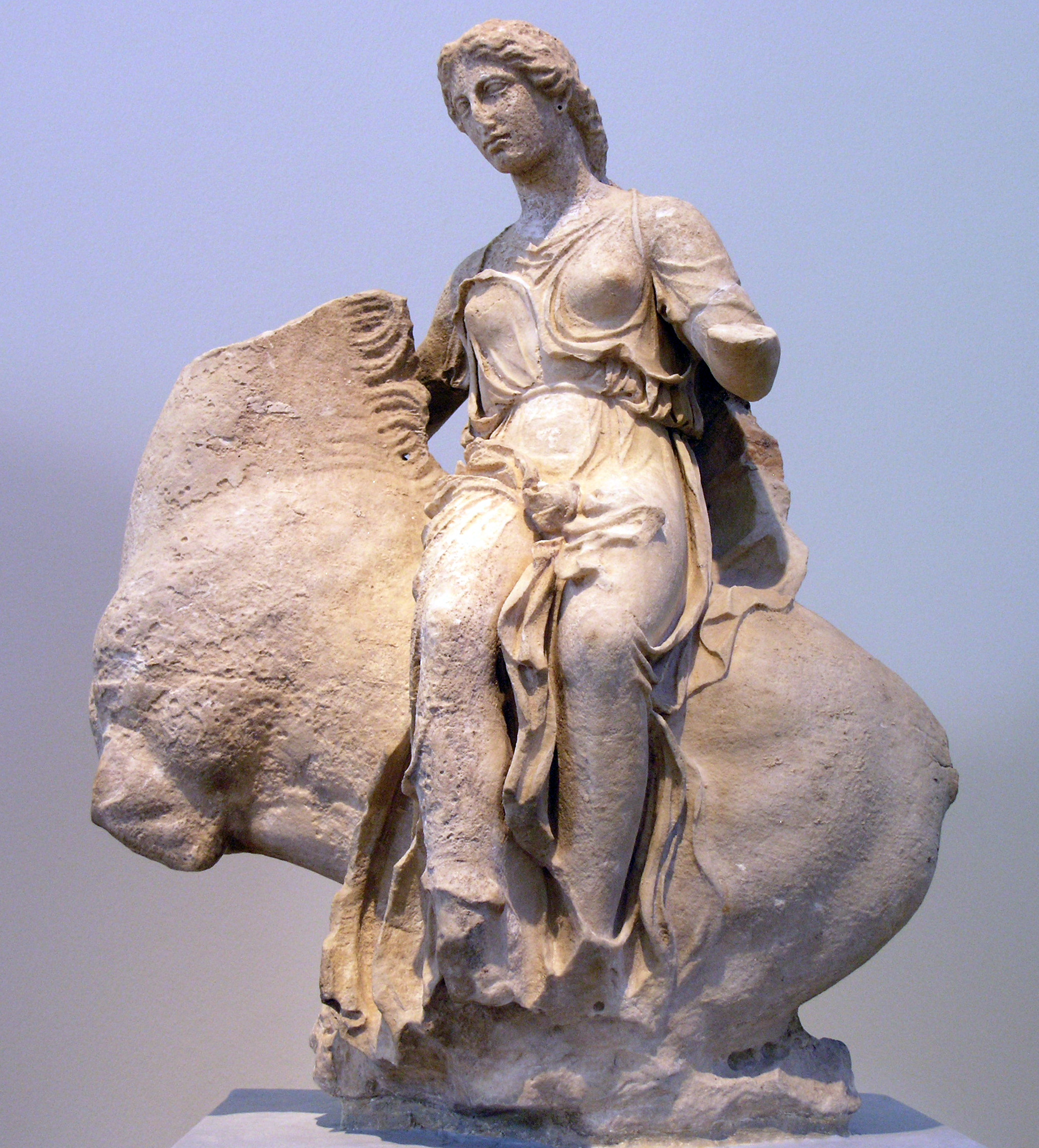 Statue of a Nereid or Aura on horseback. Pentelic marble. Found at Epidauros. This was the right corner akroterion on the west pediment of the temple of Asklepios. The goddess is depicted on horseback rising from the Ocean. By the sculptor Timotheos. About 380 BC.